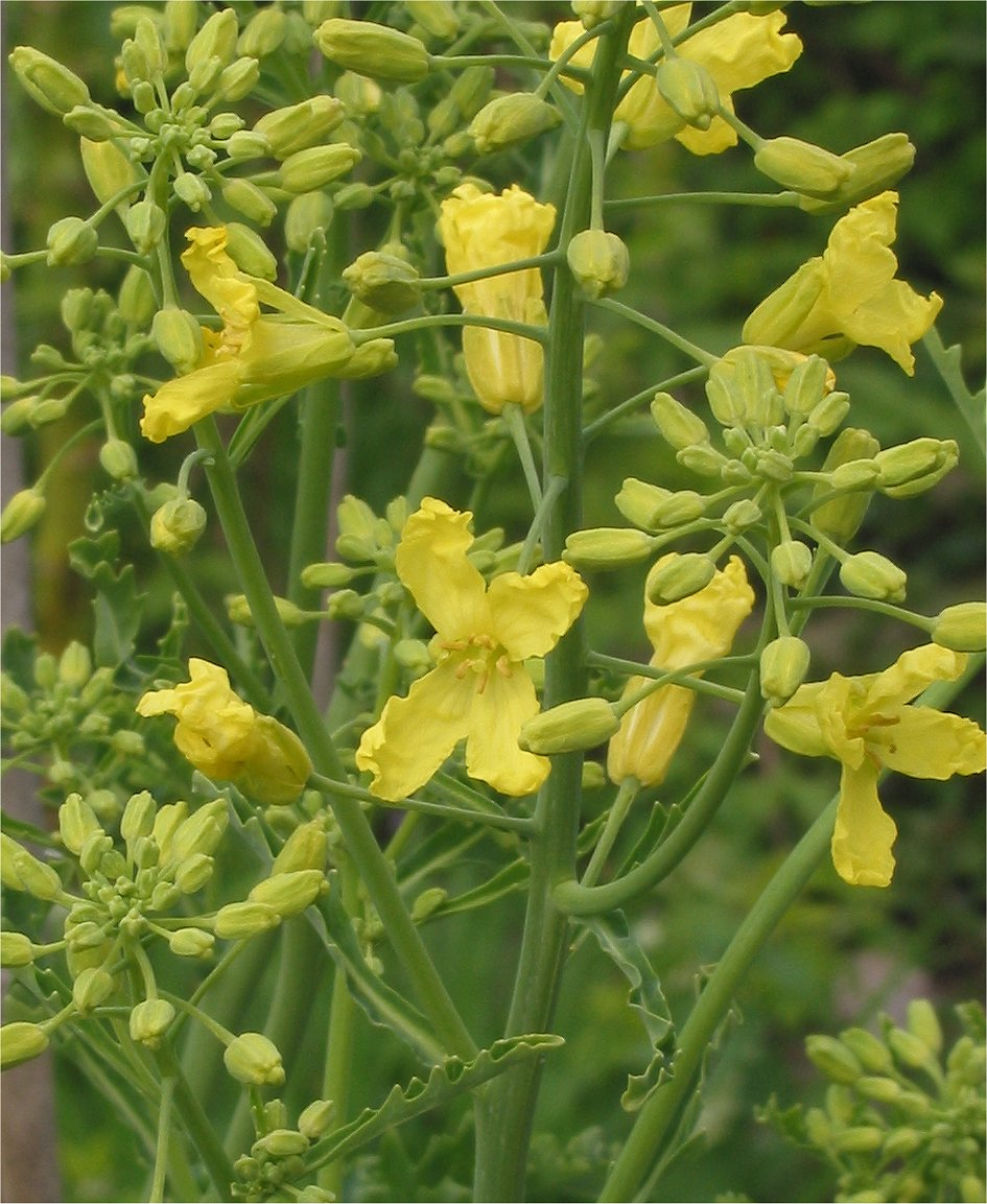 Brassica oleracea Boerenkool bloei